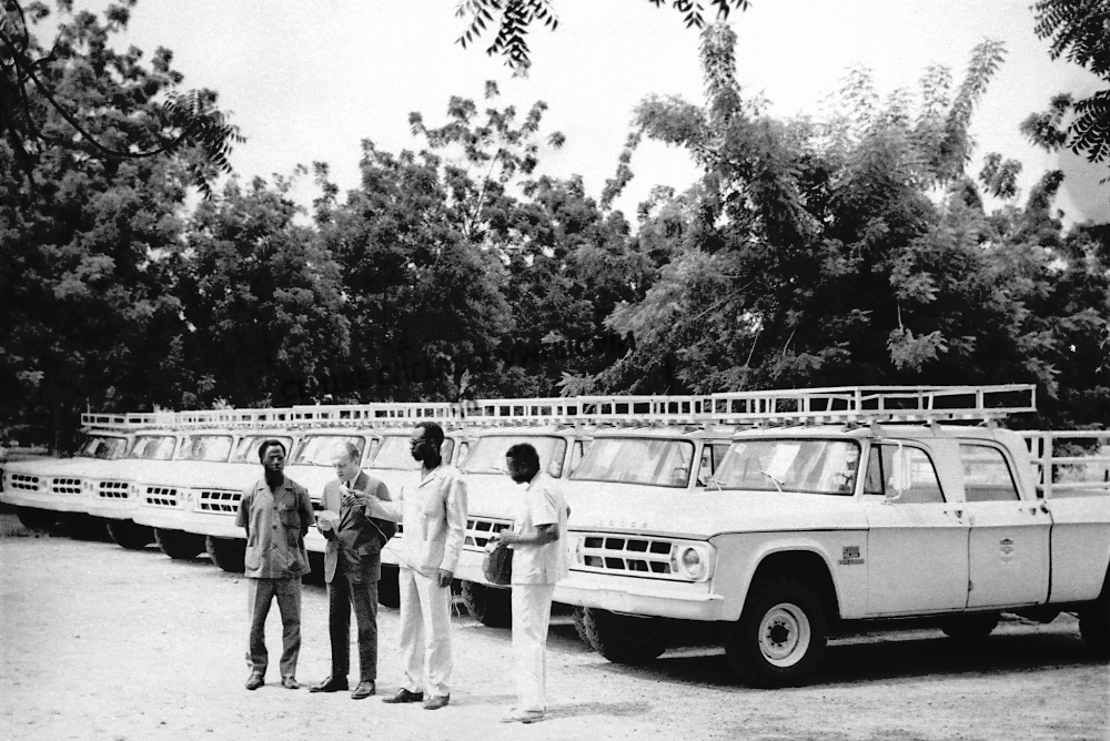 During worldwide smallpox eradication efforts, this 1969 photograph was captured at a “Truck Ceremony”, which was a way of introducing a fleet of transportation vehicles to the Upper Volta community of Burkina Faso. In 1968, the world's public health organizations – led by the United States and the then-Soviet Union – came together to join in the fight to eradicate smallpox from the world. Smallpox outbreaks have occurred from time to time for thousands of years, but the disease is now eradicated after a successful worldwide vaccination program. The last case of smallpox in the United States was in 1949. The last naturally occurring case in the world was in Somalia in 1977. After the disease was eliminated from the world, routine vaccination against smallpox among the general public was stopped because it was no longer necessary for prevention.